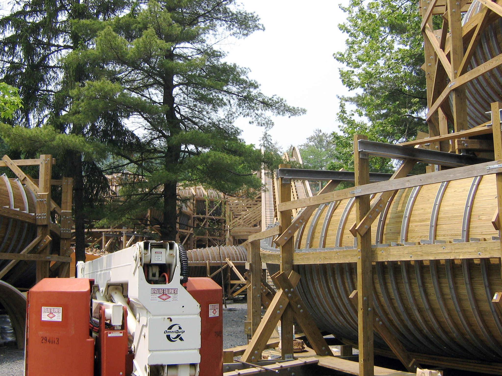 Flying Turns at Knoebels under construction.